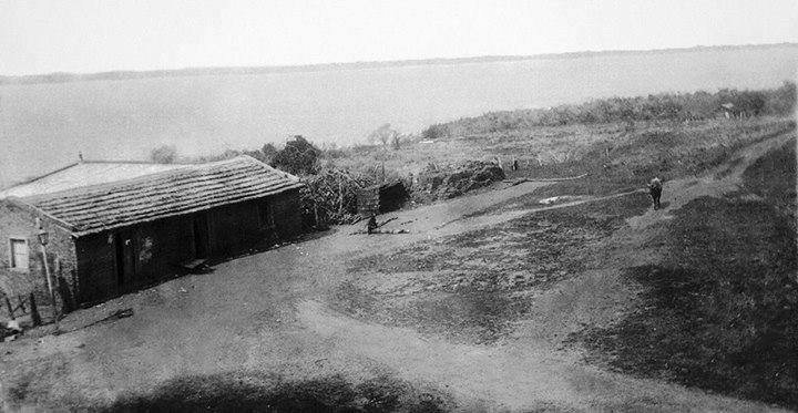 The house where José de San Martín was born (on February 25, 1778), sited in Yapeyú, Corrientes Province of Argentina.